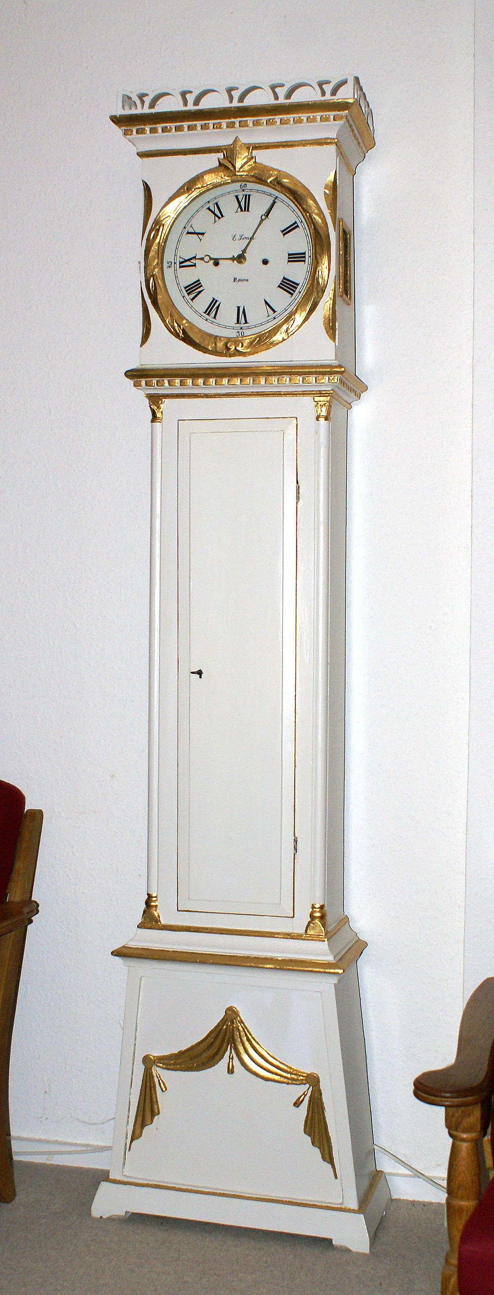 Bornholm clock made by Edvart Sonne in Rønne, Bornholm in the late 1700s. The colour is not original, repainted around 1990